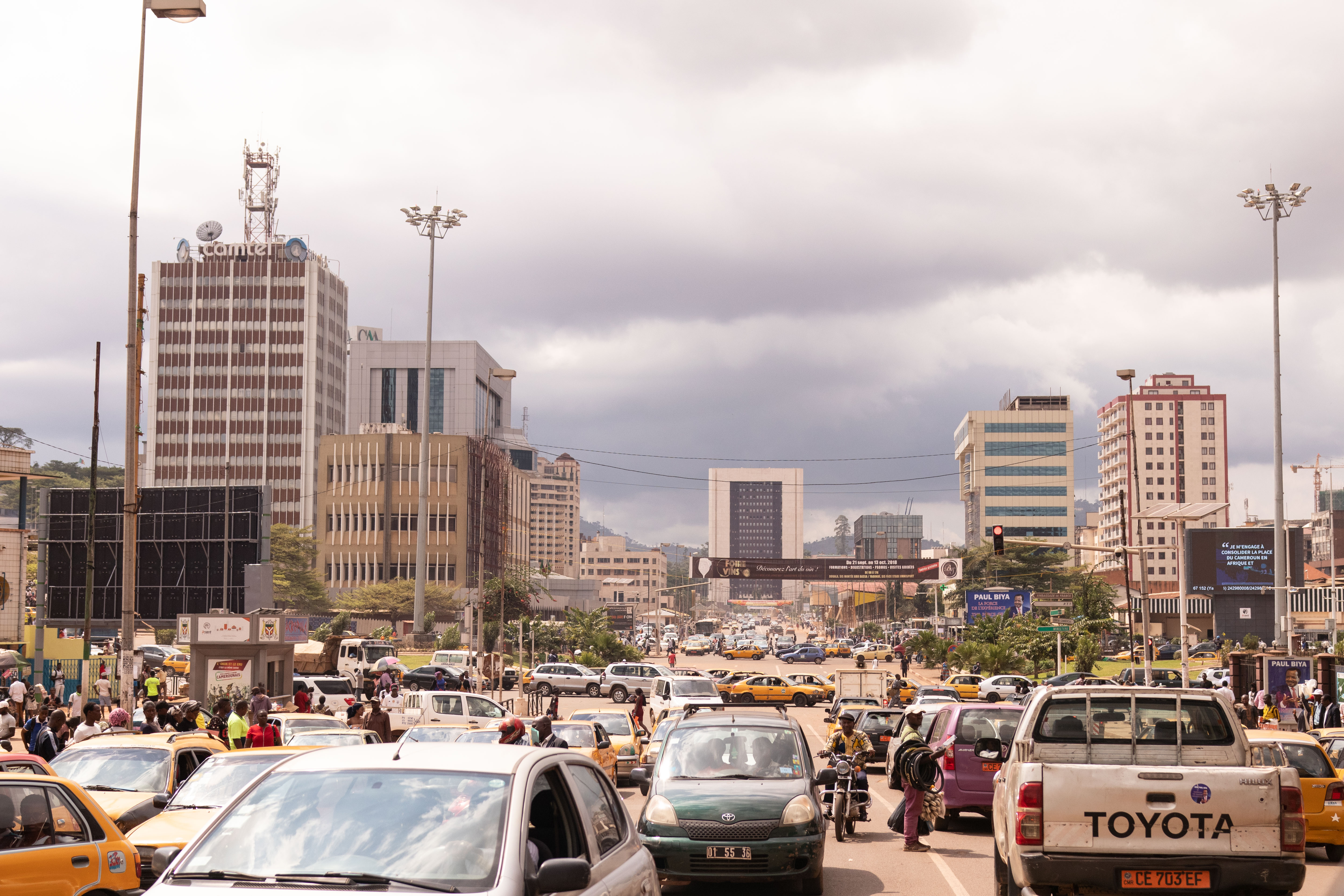 Center of Yaoundé with heavy traffic.